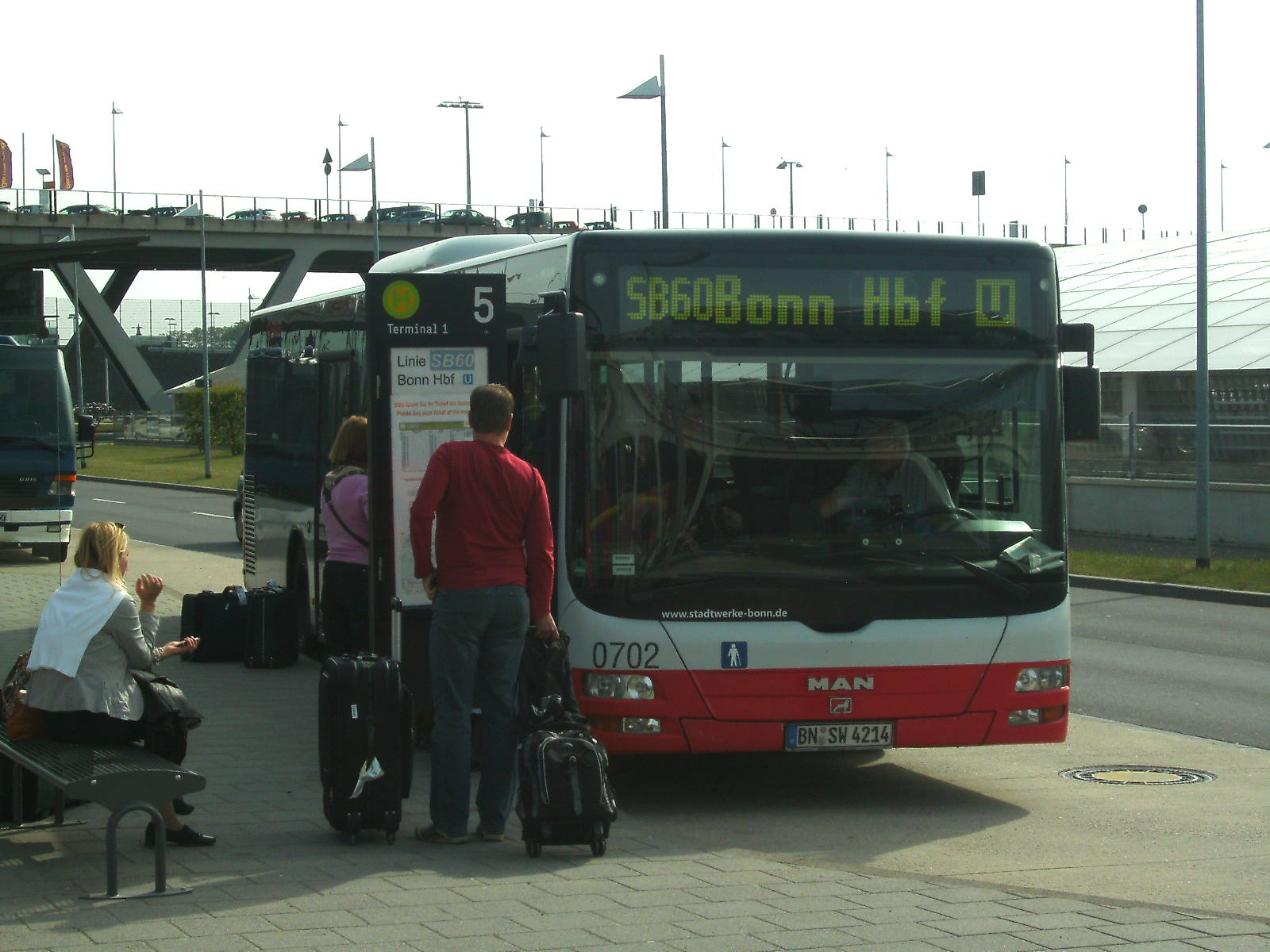 a german "StädteSchnellBus" (express bus) at the Cologne Bonn Airport